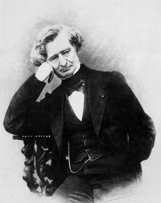 Photo of Hector Berlioz (1803 – 1869)